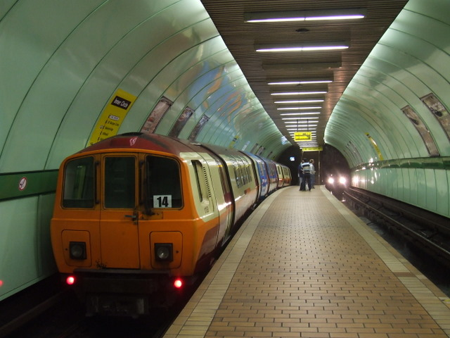 Cowcaddens subway station. See also 770460 & 770456.